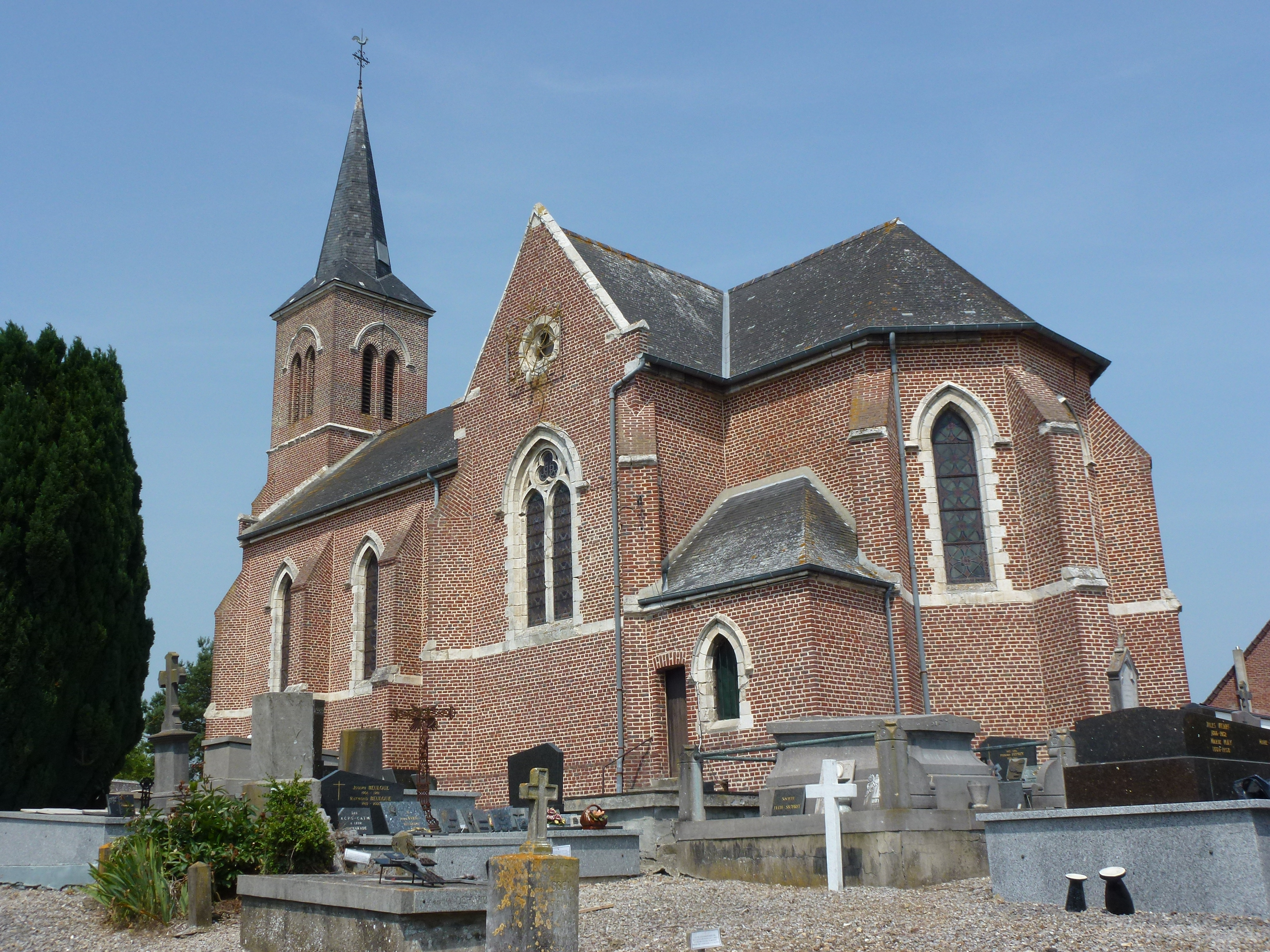 Wittes (Pas-de-Calais, Fr) église